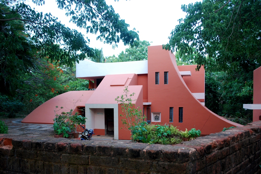 Sculpturous House in Auroville